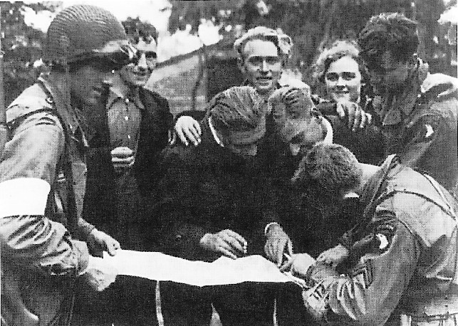 Members of the Eindhoven Resistance in briefing with troops of the 101st Airborne during Operation Market Garden in September 1944